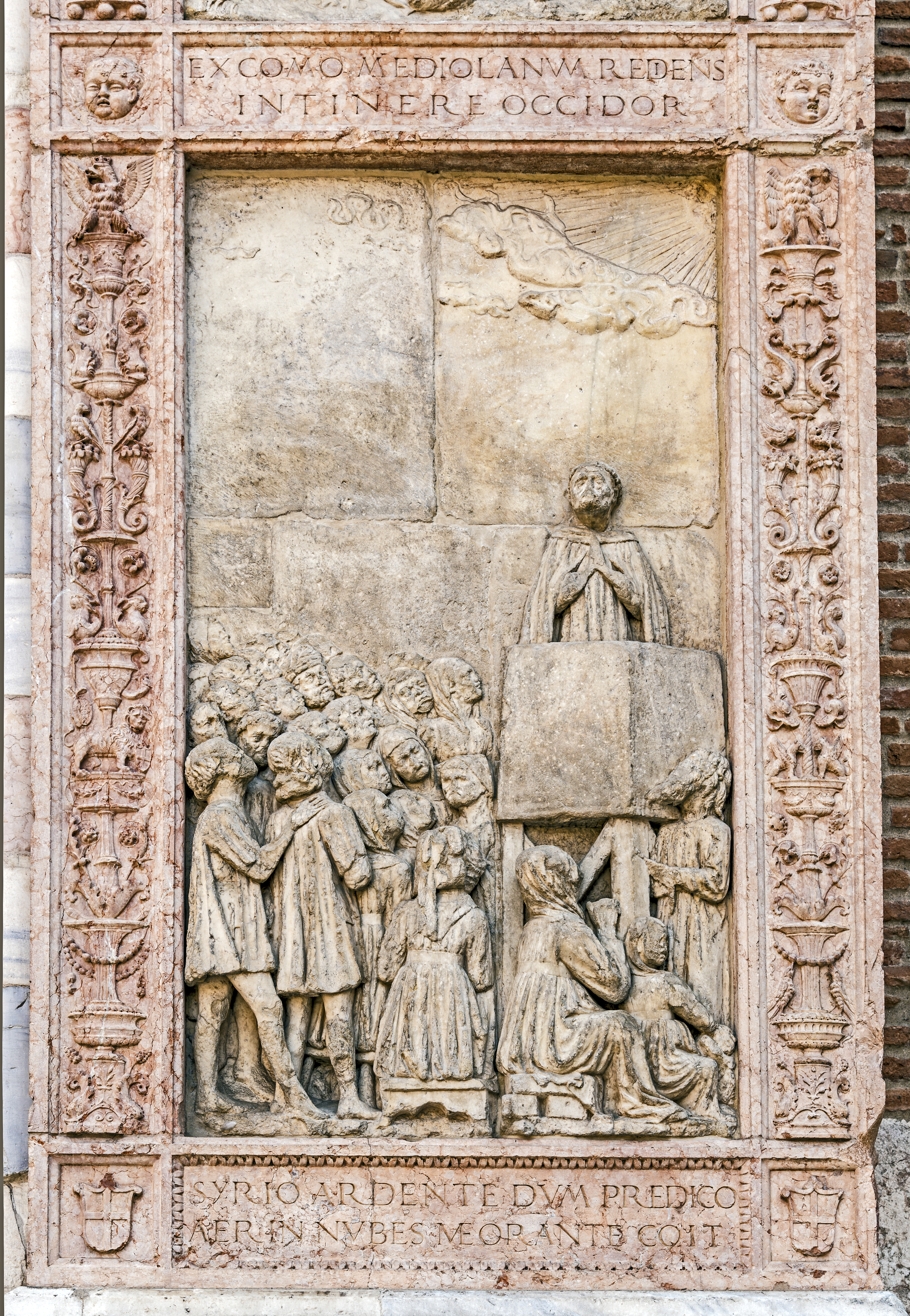 Façade of the Basilica Santa Anastasia Piazza Sant'Anastasia in Verona. Bas-relief with saint Peter of Verona preaching.